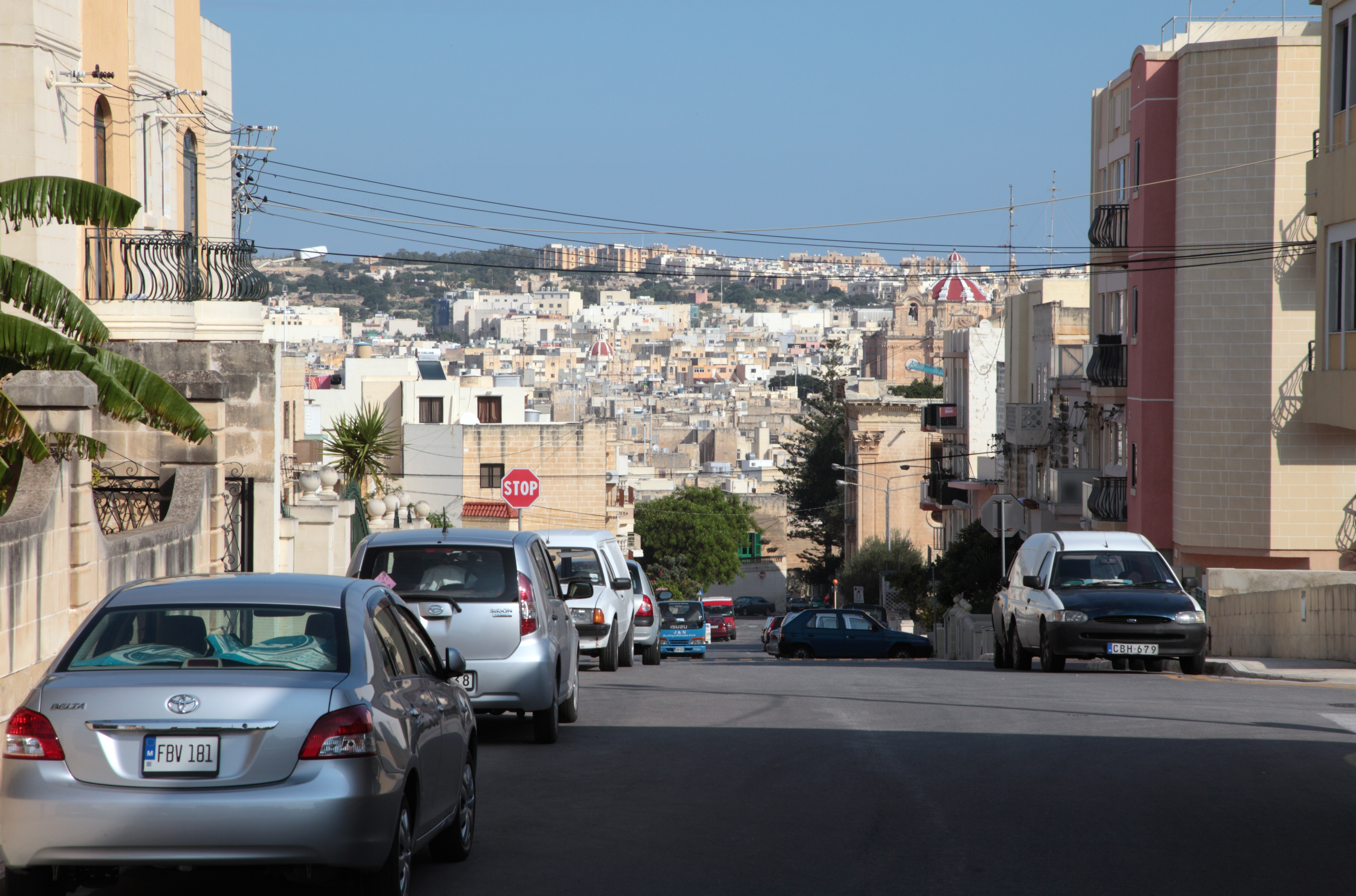 Birkirkara, the most populated town in Malta